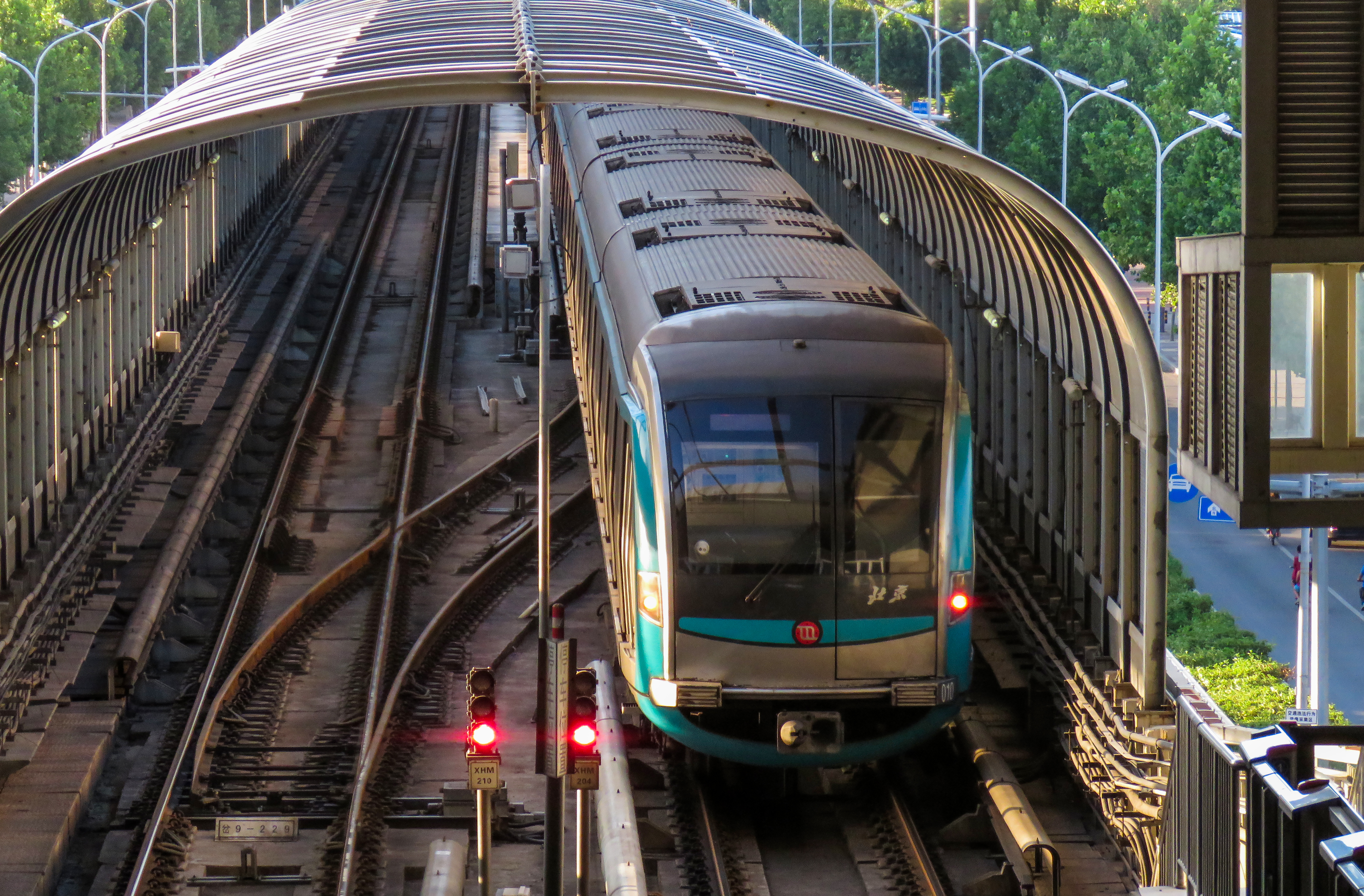 Nearly got heat stroke at this station!